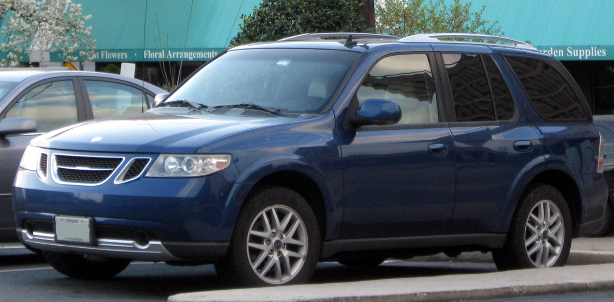 Saab 9-7X photographed in Washington, D.C., USA.